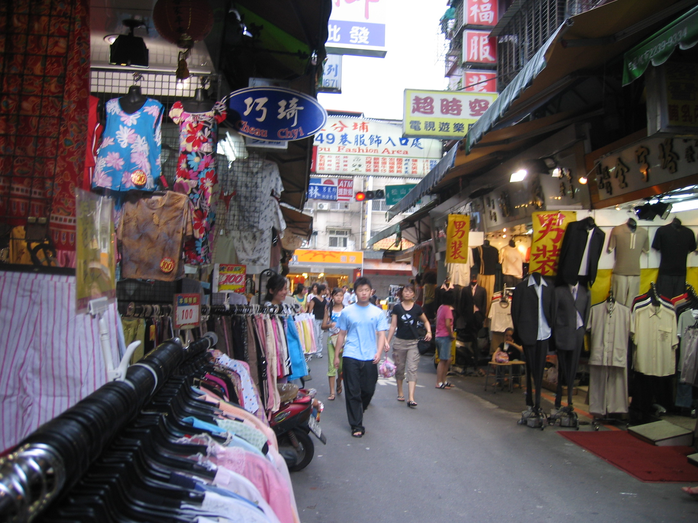 Description: Wufenpu Garment Wholesale Area, Songshan District, Taipei City, Republic of China. Author: User:Jiang Date: 2005.08.06